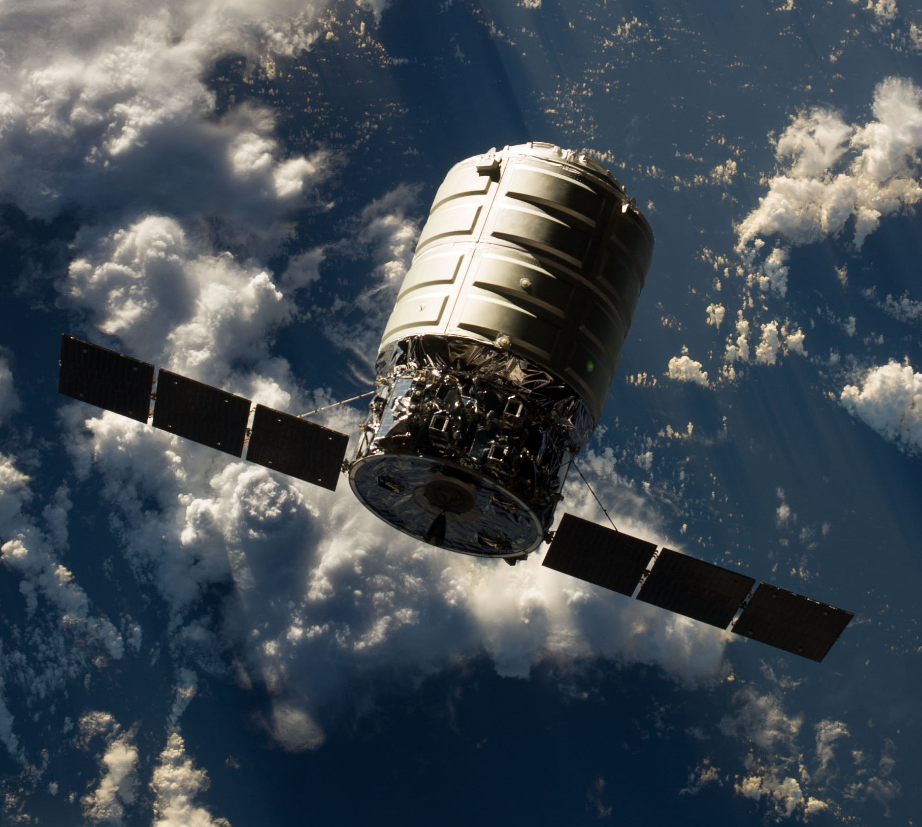 ISS037-E-003717 (29 Sept. 2013) --- The Canadarm2 moves toward the first Cygnus commercial cargo spacecraft built by Orbital Sciences Corp. as it approaches the International Space Station. The two spacecraft converged at 7:01 a.m. EDT on Sept. 29, 2013.